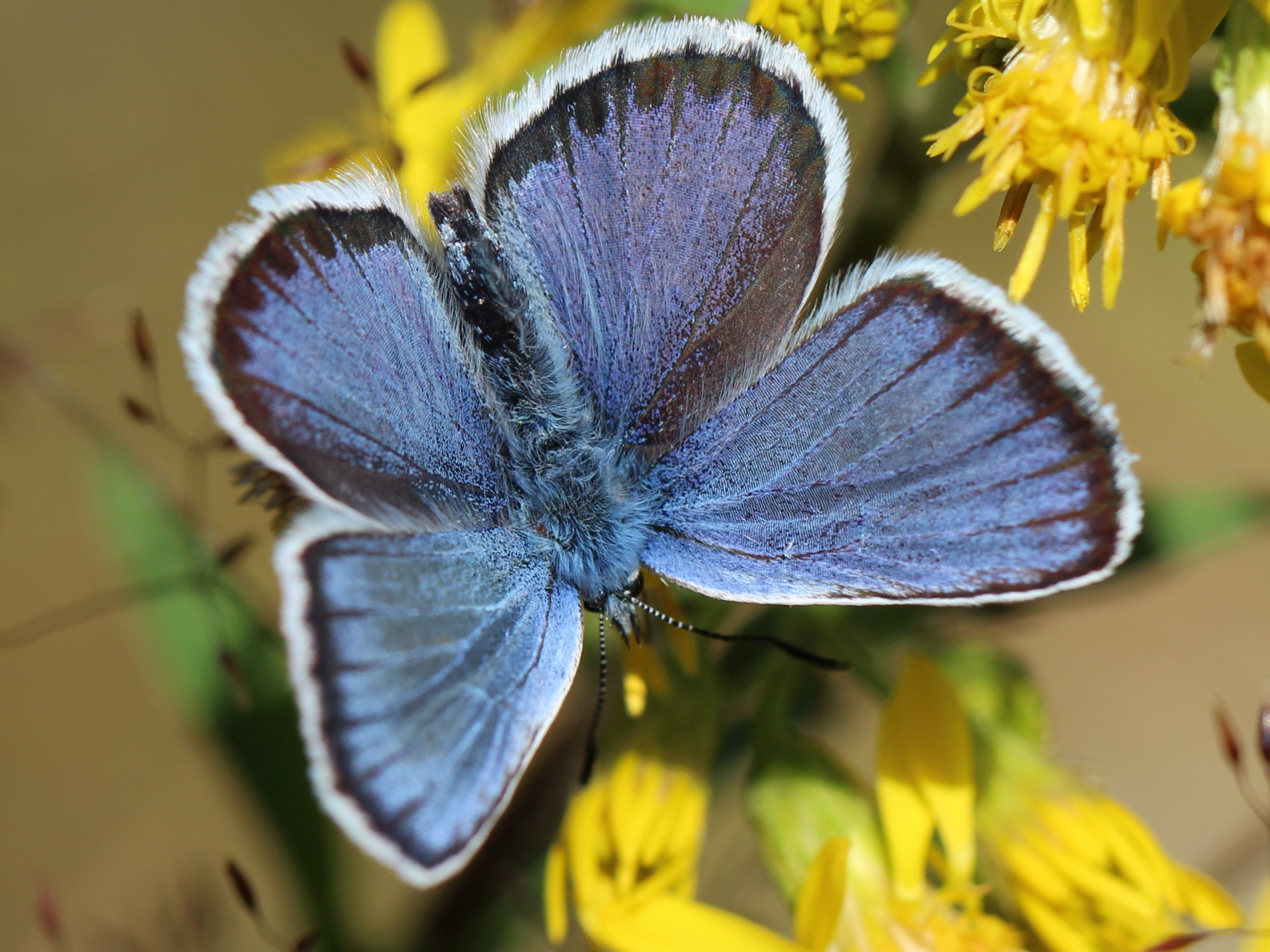 Plebeius argus